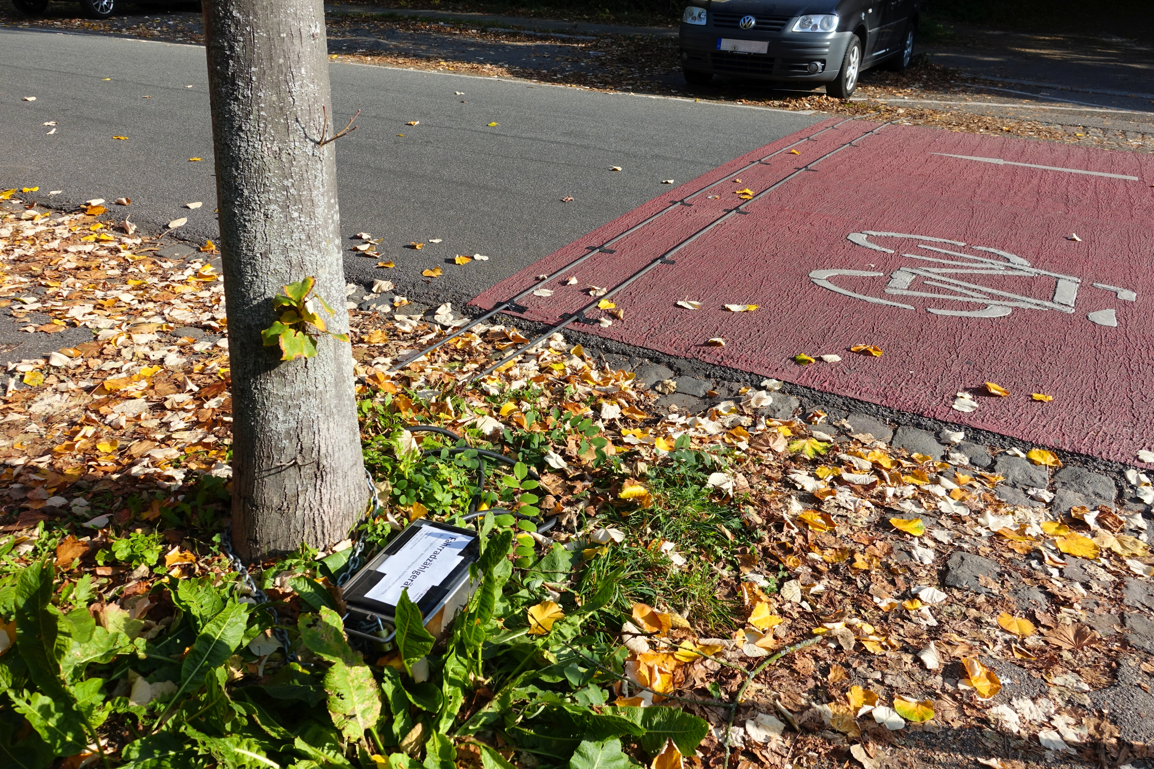 Bicycle counter, temporarily installed, picture taken in Mannheim (Germany)